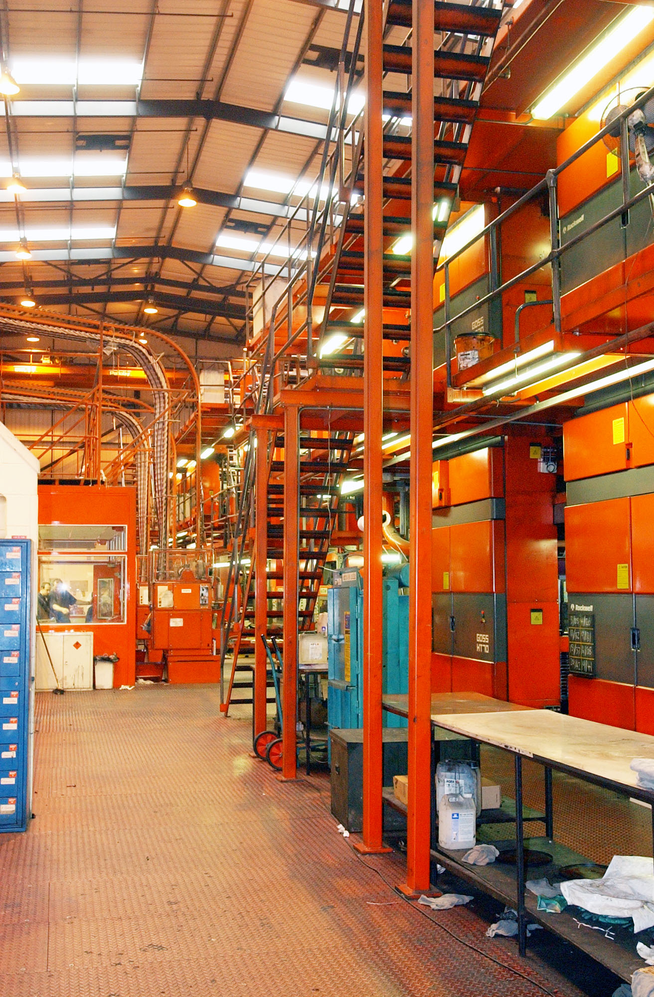 The Sunderland Echo press in 2004.